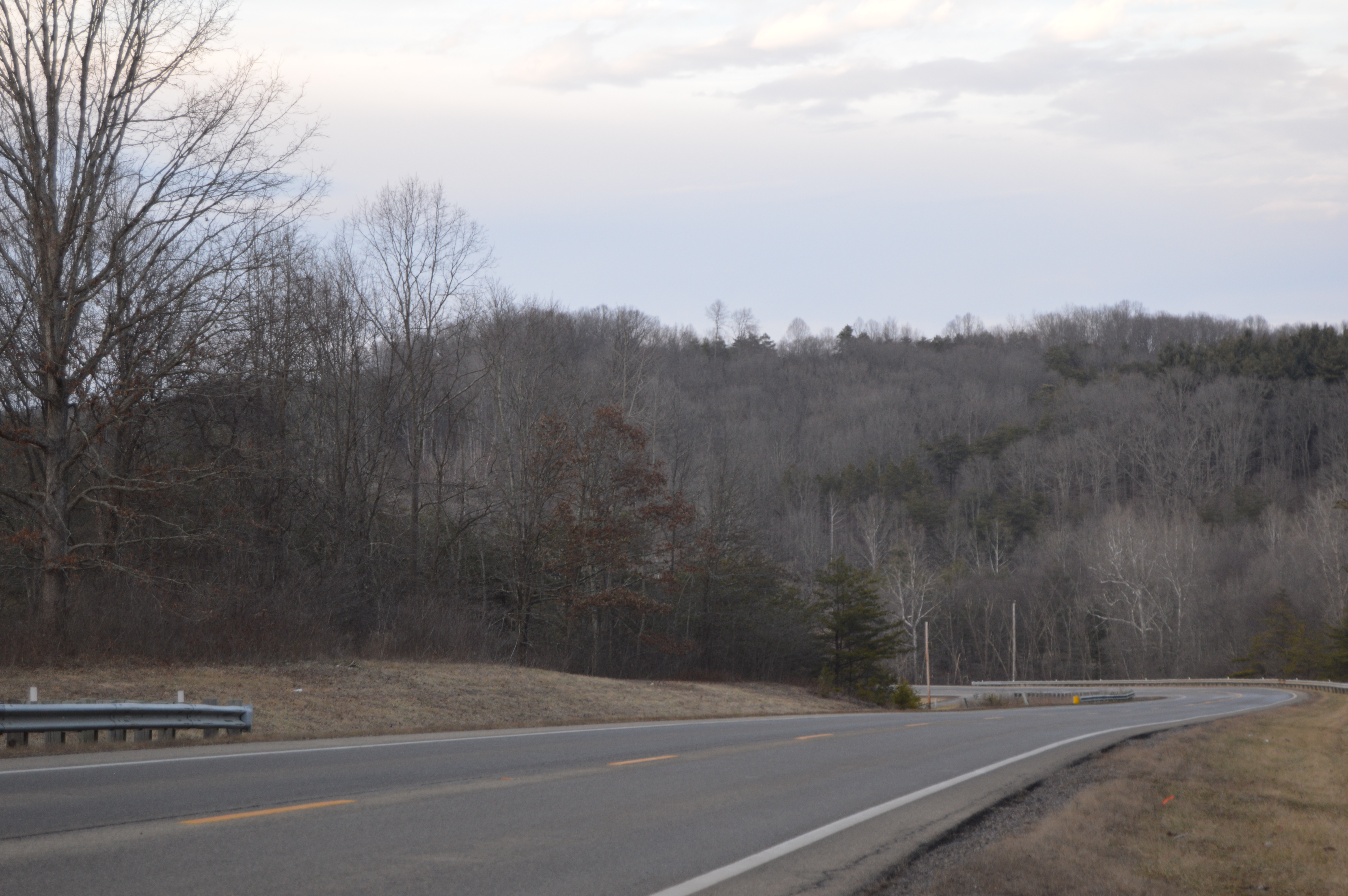 Looking southeast along State Route 93 just north of Mount Pleasant in southern Washington Township, Hocking County, Ohio, United States.